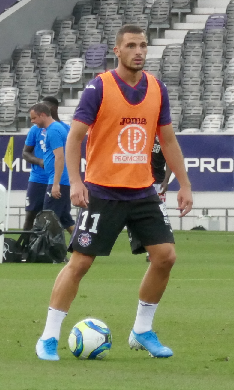 Quentin Boisgard warming up on August 31, 2019 at the Toulouse Stadium. 4th day of the season 2019-2020 of Ligue 1, Toulouse FC - Amiens SC.